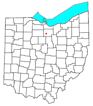 Locator map of the unincorporated community of Steuben in Huron County, Ohio, United States.